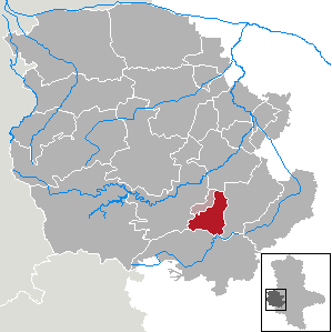 Gernrode in Saxony-Anhalt - District Harz